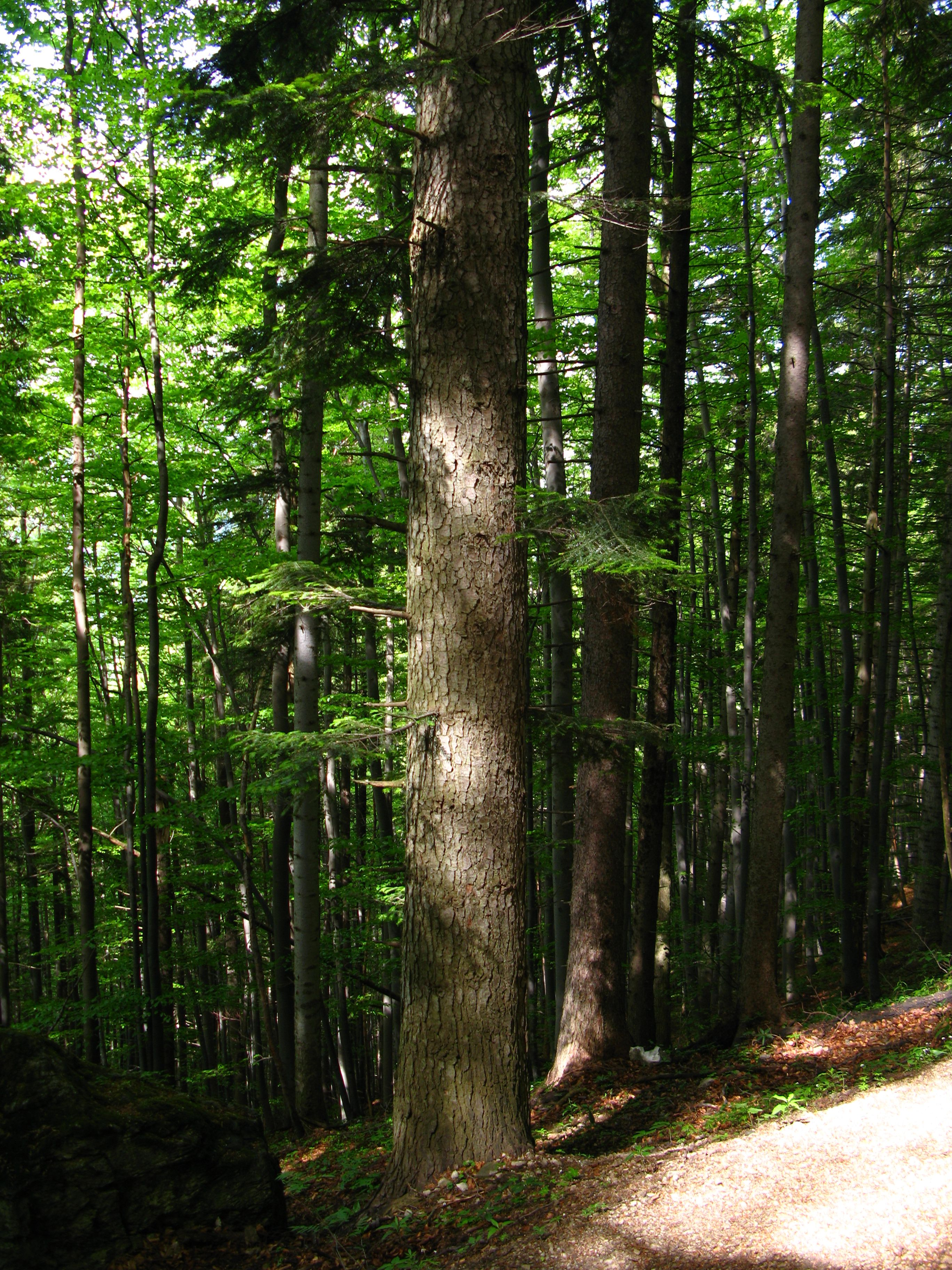 Abies alba trunk; Malá Fatra, Slovakia